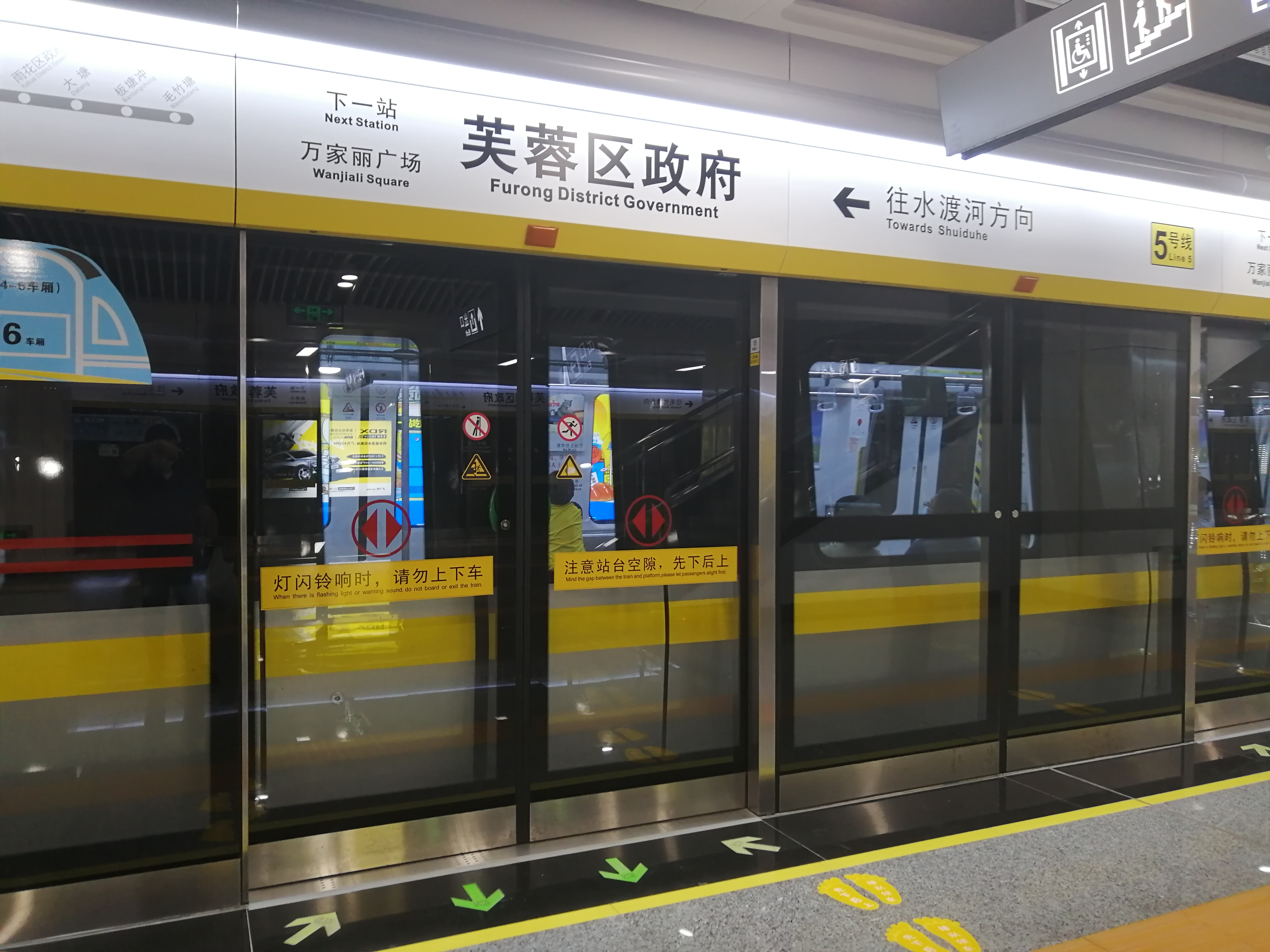 Train of Metro Line 5 in Furong District Government Station